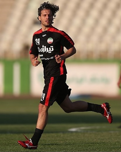 Shpejtim Arifi in Hadi Norouzi's memorial match